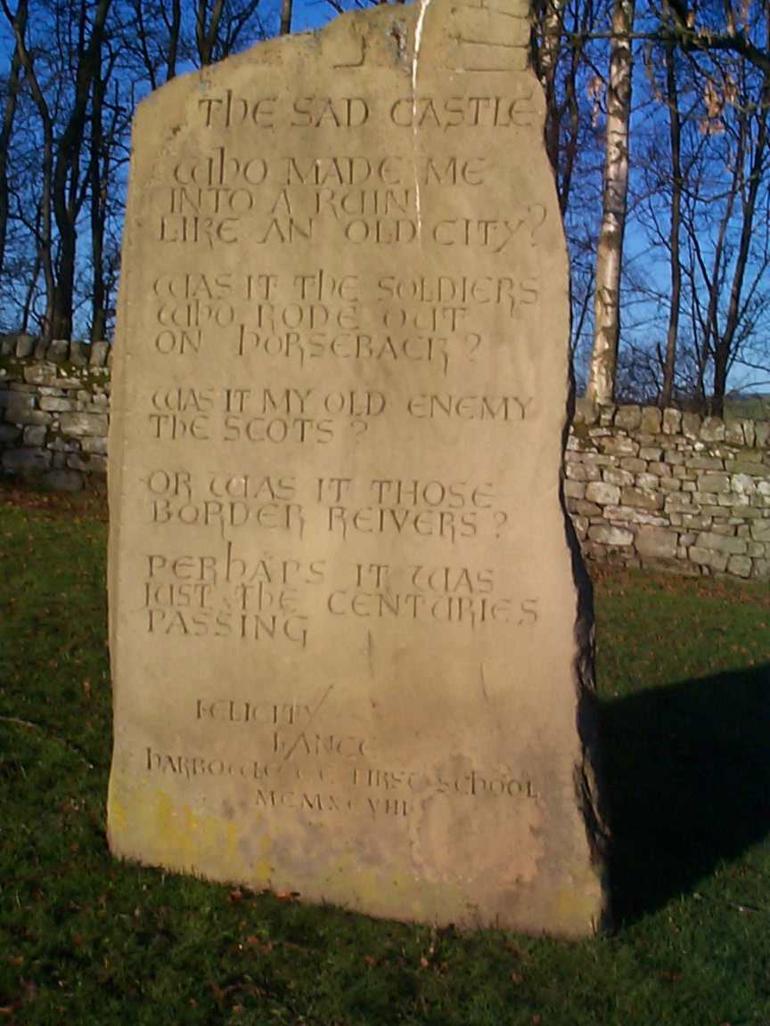 Glenn Smart (glennsmart(at) ) Use the images for whatever you want. That's how the Internet should be - free and for sharing